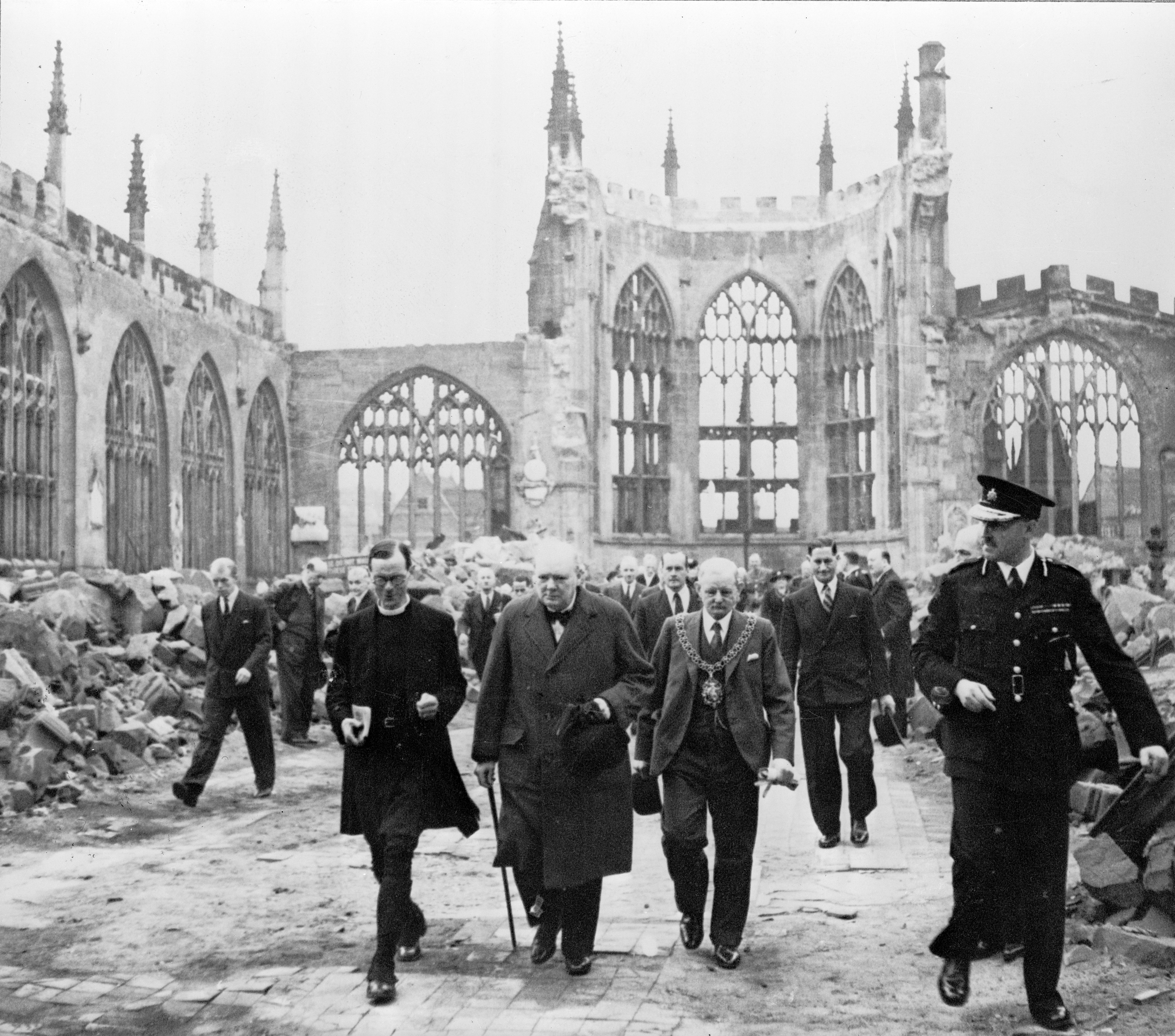 Prime Minister Winston Churchill walks with the Mayor of Coventry and a member of the Church of England clergy through the ruined nave of Coventry Cathedral after it was bombed by the German air force in November 1940. Official war photograph for the UK government.